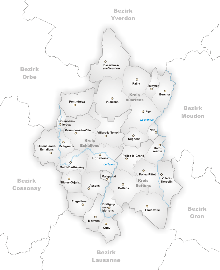 Municipalities of District Echallens until 2007